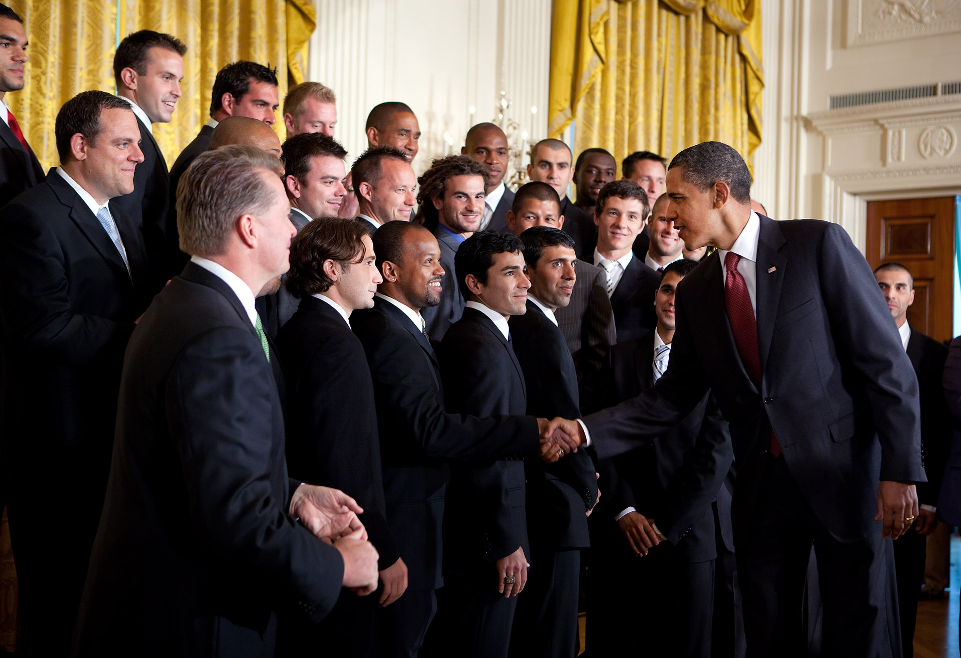 President Barack Obama greets team members during a ceremony honoring the Major League Soccer champion Real Salt Lake in the East Room of the White House.